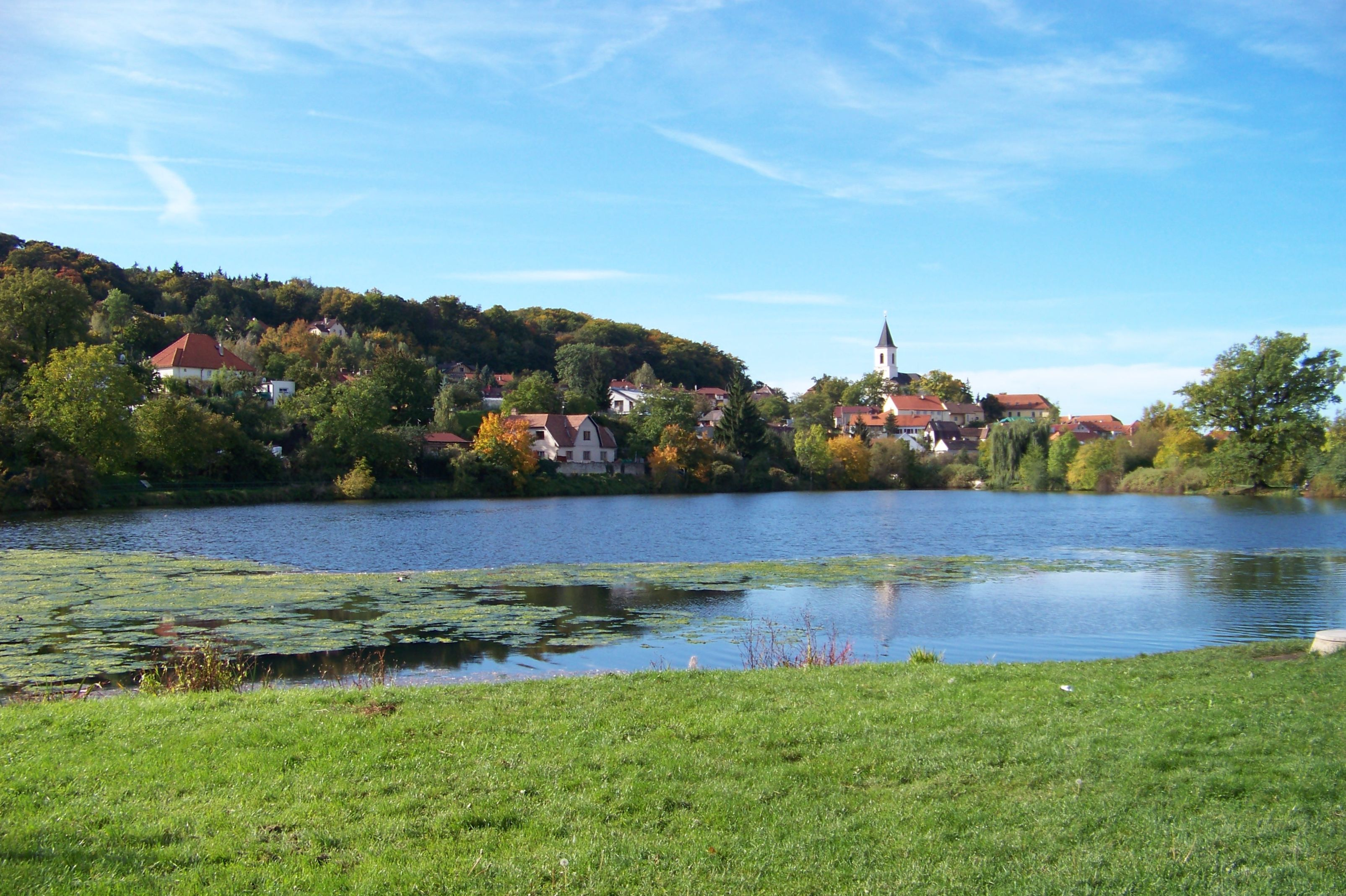 Prague-Liboc, the Czech Republic. Liboc Pond. - OpenStreetMap(Info)